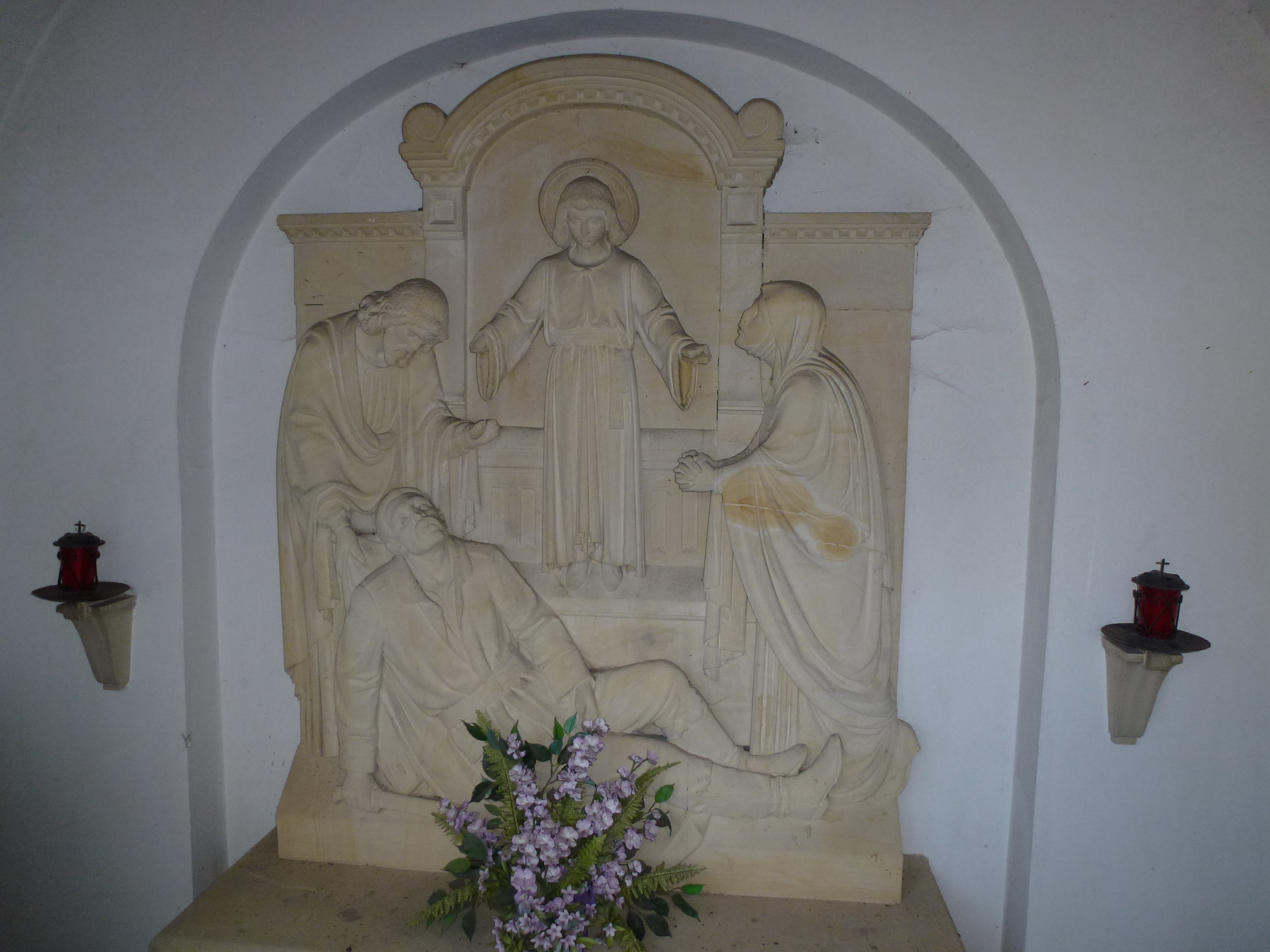 This is a photograph of an architectural monument., no. 109